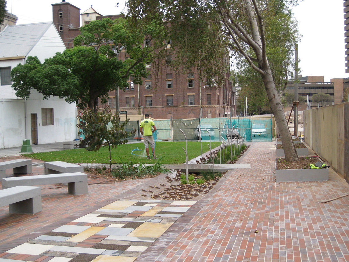 Balfour Street Park.